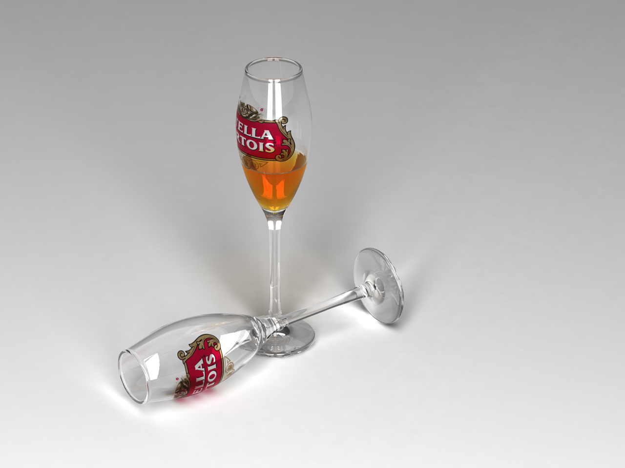 Labeled glass using costume written mental ray shader, demonstrating the use of Dielectric Shaders.